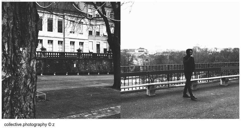 example of a dual photo (e.g. with duall dualphoto app)